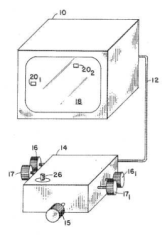 Drawing used to illustrate the working of the Magnavox Odyssey